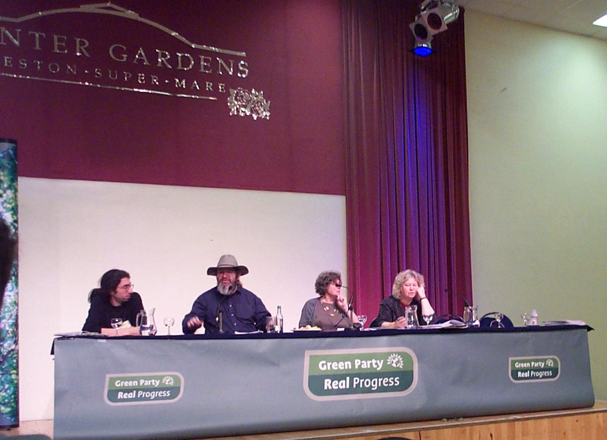 a question-and-answers discussion panel on the European constitution at the Green Party of England and Wales autumn conference, Weston-super-Mare, 2004-10-23. Copyright © Kaihsu Tai.